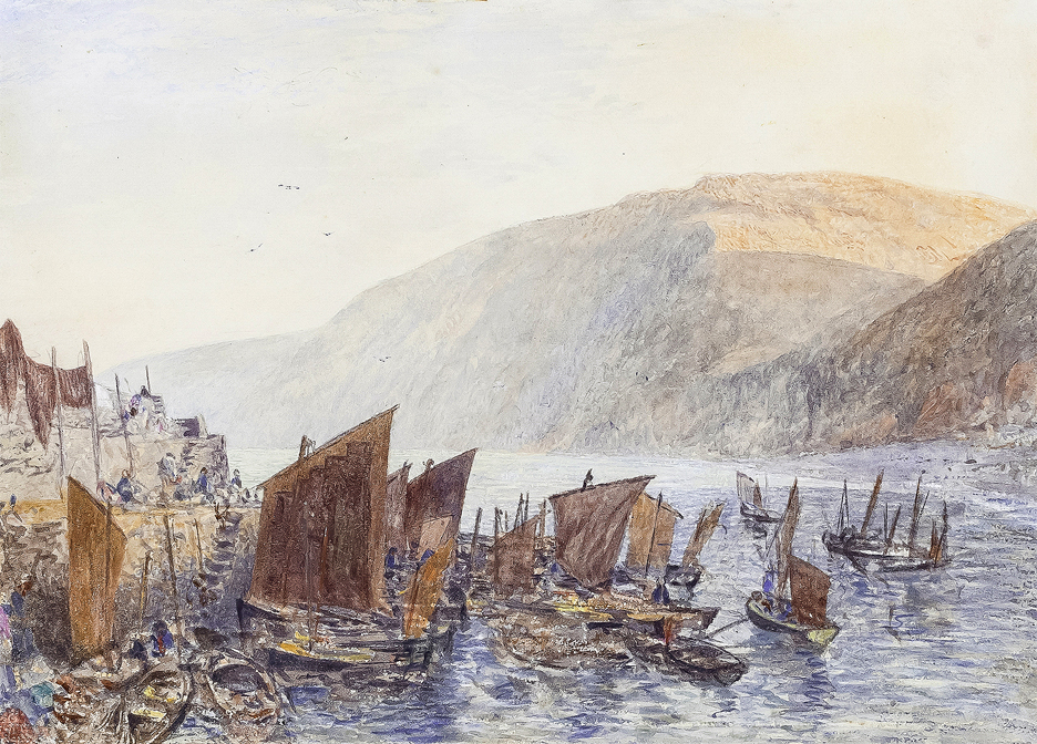 Offered for sale by Abbott and Holder in December 2019, when it was described as "HUNT Alfred William (1830-1896) Clovelly Harbour, Devon. Watercolour. Remains of signature bottom right. Provenance: Lot 169, Newall Sale, Christies 13-14th December, 1979. Probable Exhibition: No.452, OWS 1864/65. Lit: No.29. ‘A.W. Hunt’, Burlington Fine Arts Club, 1897. 7.5x10.5 inches."